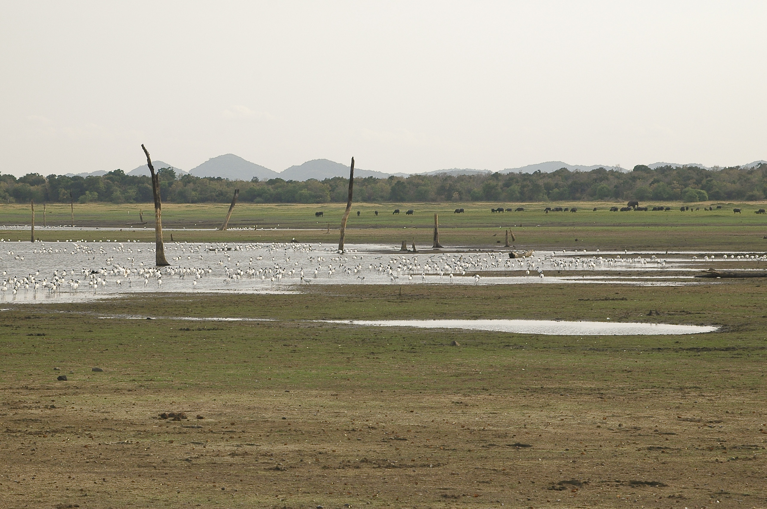 Birds at the Minneriya-Giritale National Park during our jeep safari.